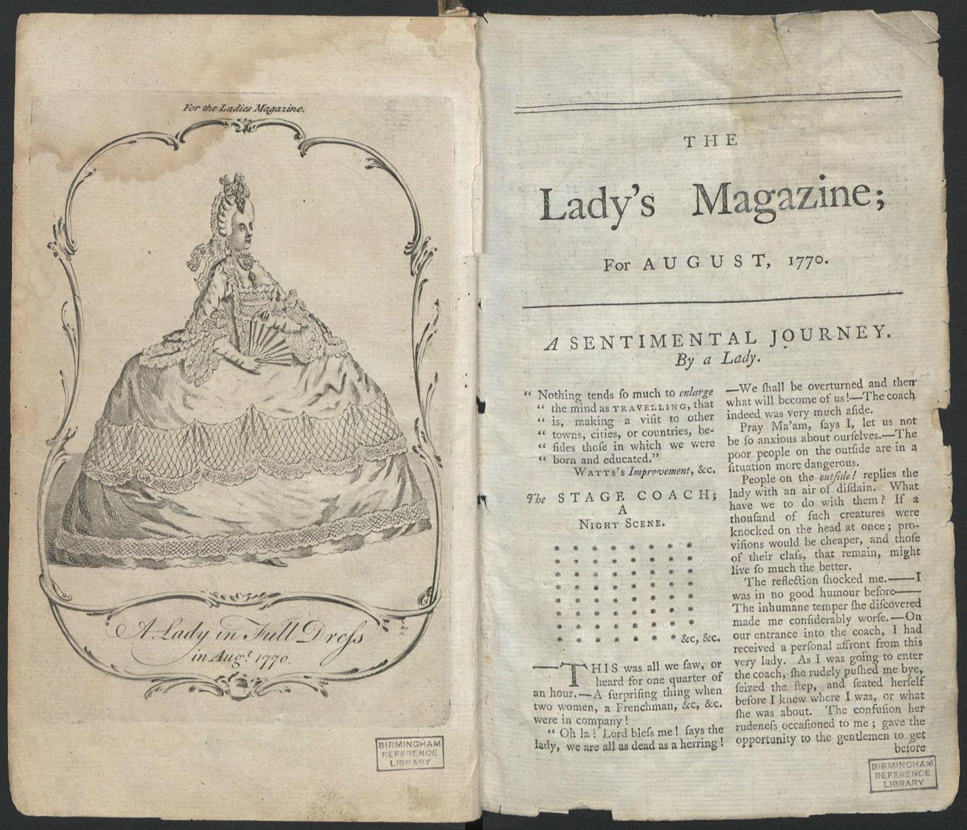 Lady's Magazine or Entertaining Companion for the Fair Sex, Appropriated Solely to Their Use and Amusement, was an early British women's magazine produced monthly from 1770 until 1847.